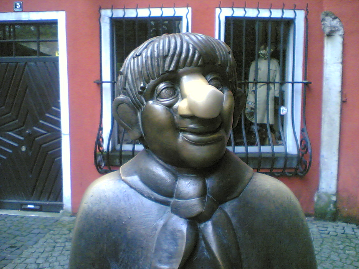 Tünnes-Memorial in Cologne, Germany